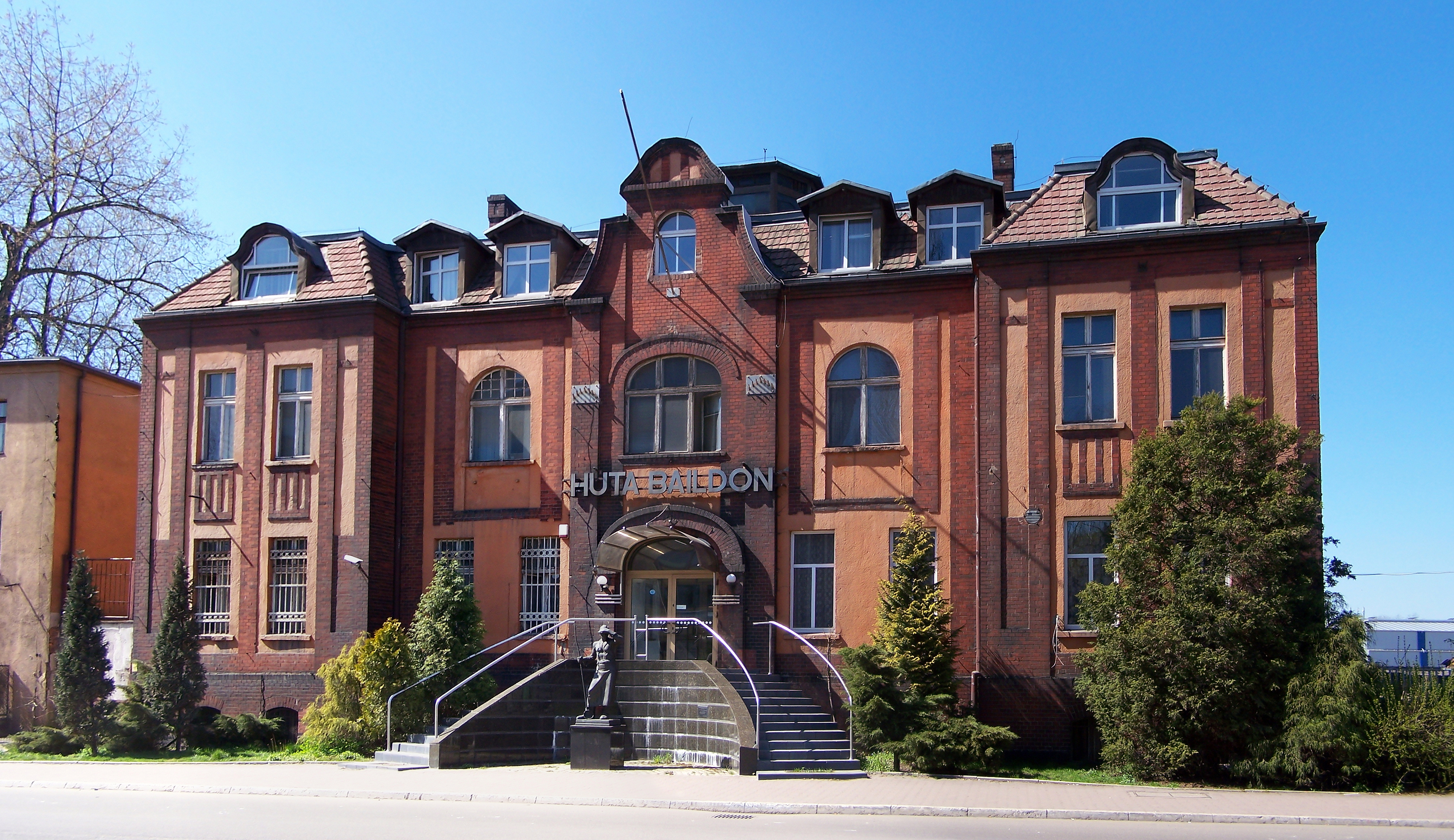 Building of ironworks Baildon in Katowice (Poland).